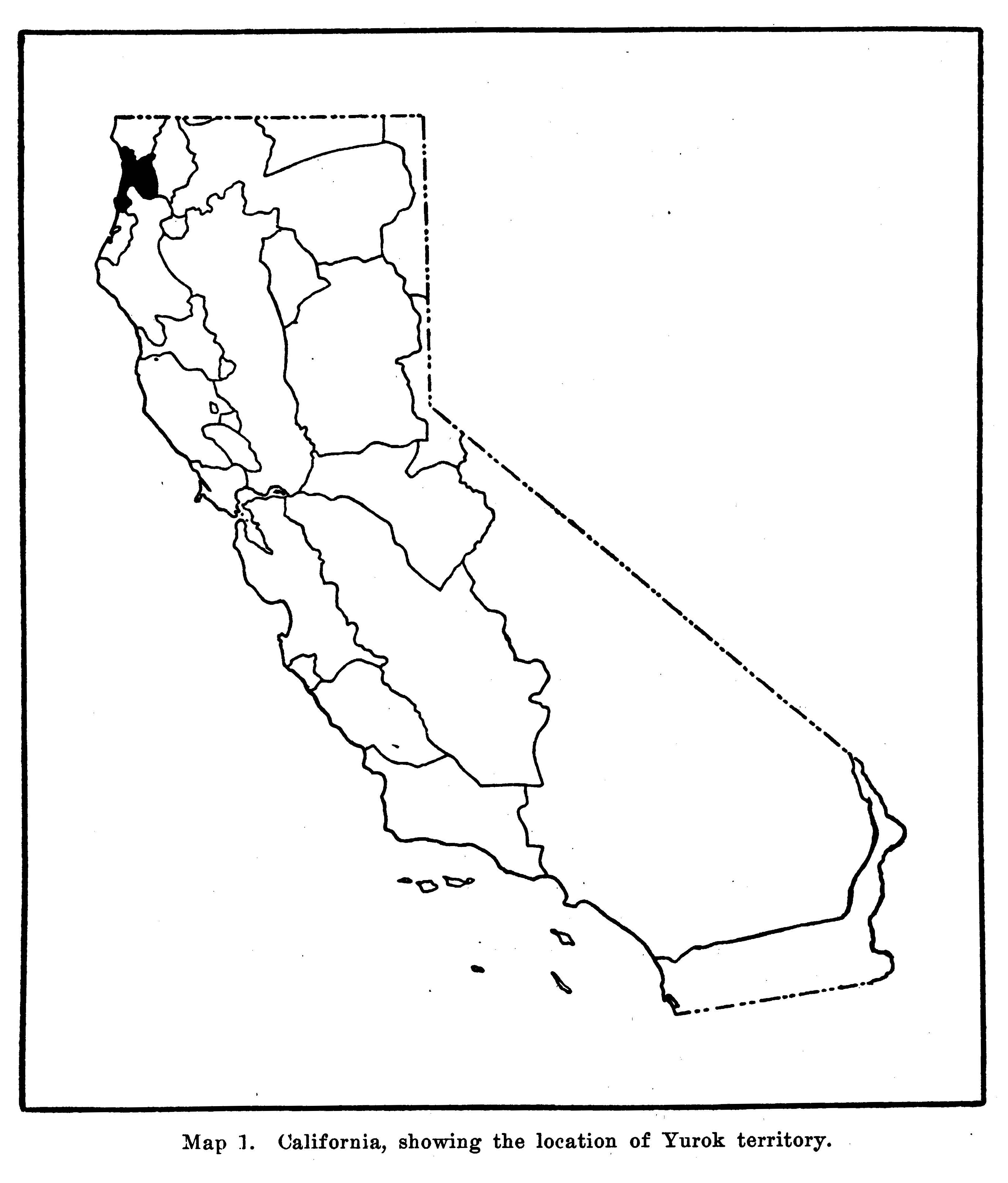 From Yurok Geography (1920) Thomas Talbot Waterman (1885-1936)